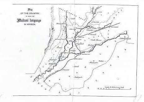 ملتانی زبان (Linguistic survey of India 1881-1882)